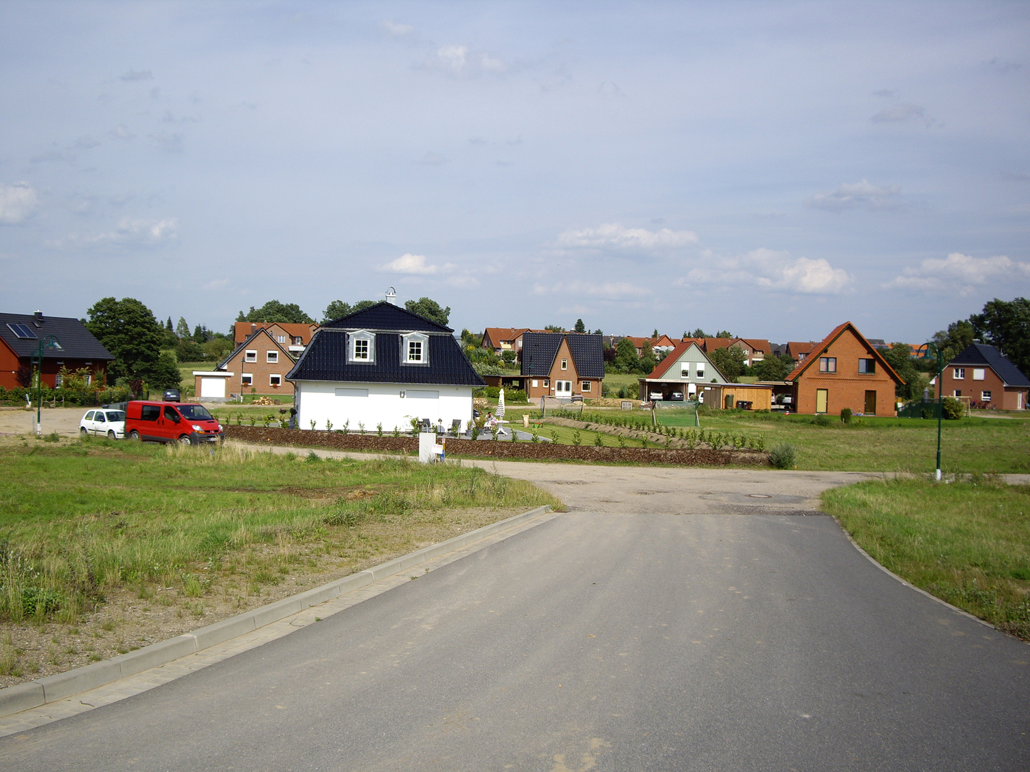 development area "Lustgarten" in Melbeck.